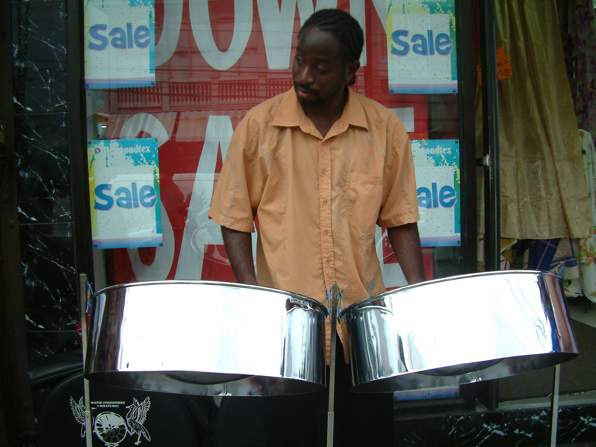 A steelpan player on High Street in Trinidad and Tobago